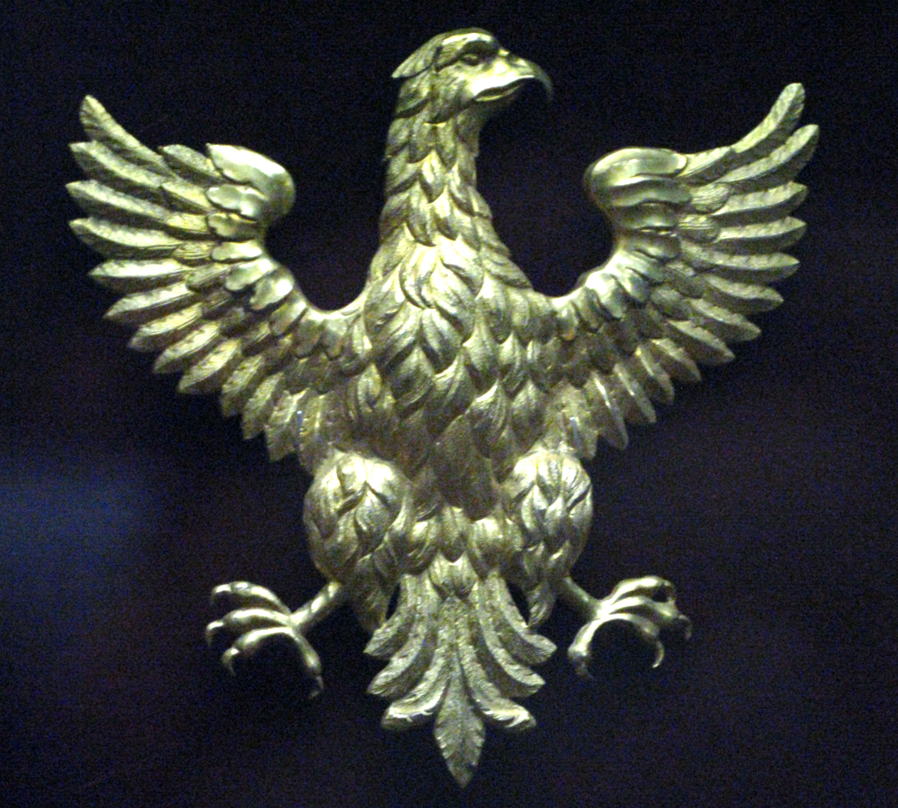 Gilt Eagle of Masovian Voivodeship (end of XVIII century)